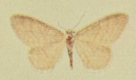 Plate 45. Fig. 13. DescriptionBinomial in textModern accepted nameSilky Wave.Acidalia holosericataIdaea dilutaria